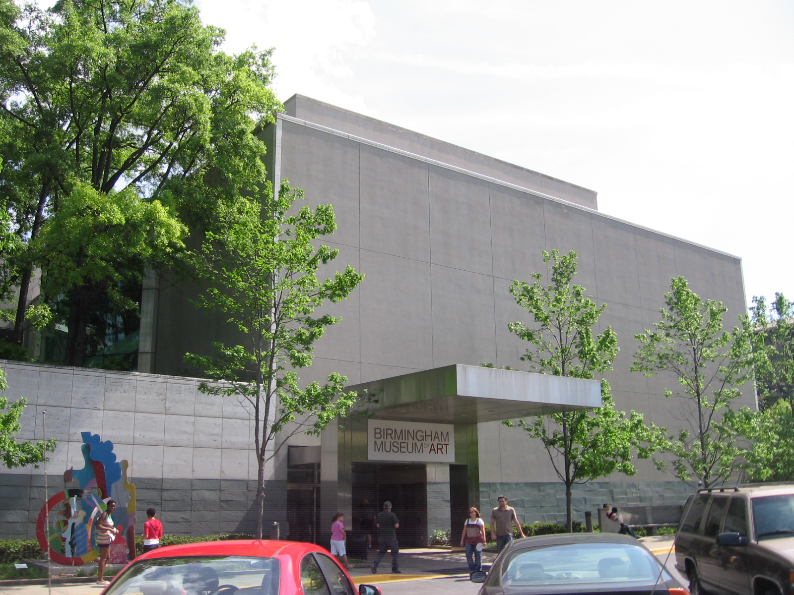 North entrance to Birmingham Museum of Art in Birmingham, Alabama.